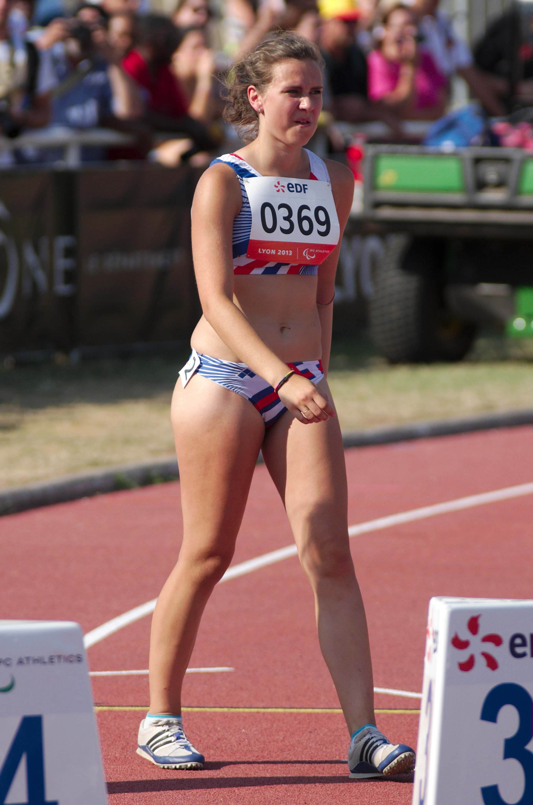 Tereza Jakschova of Czech Republic preparing for the Women's 100m - T46 second semifinal